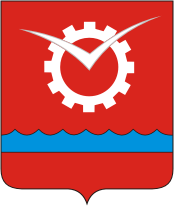 Pavlodar, coat of arms (1969)